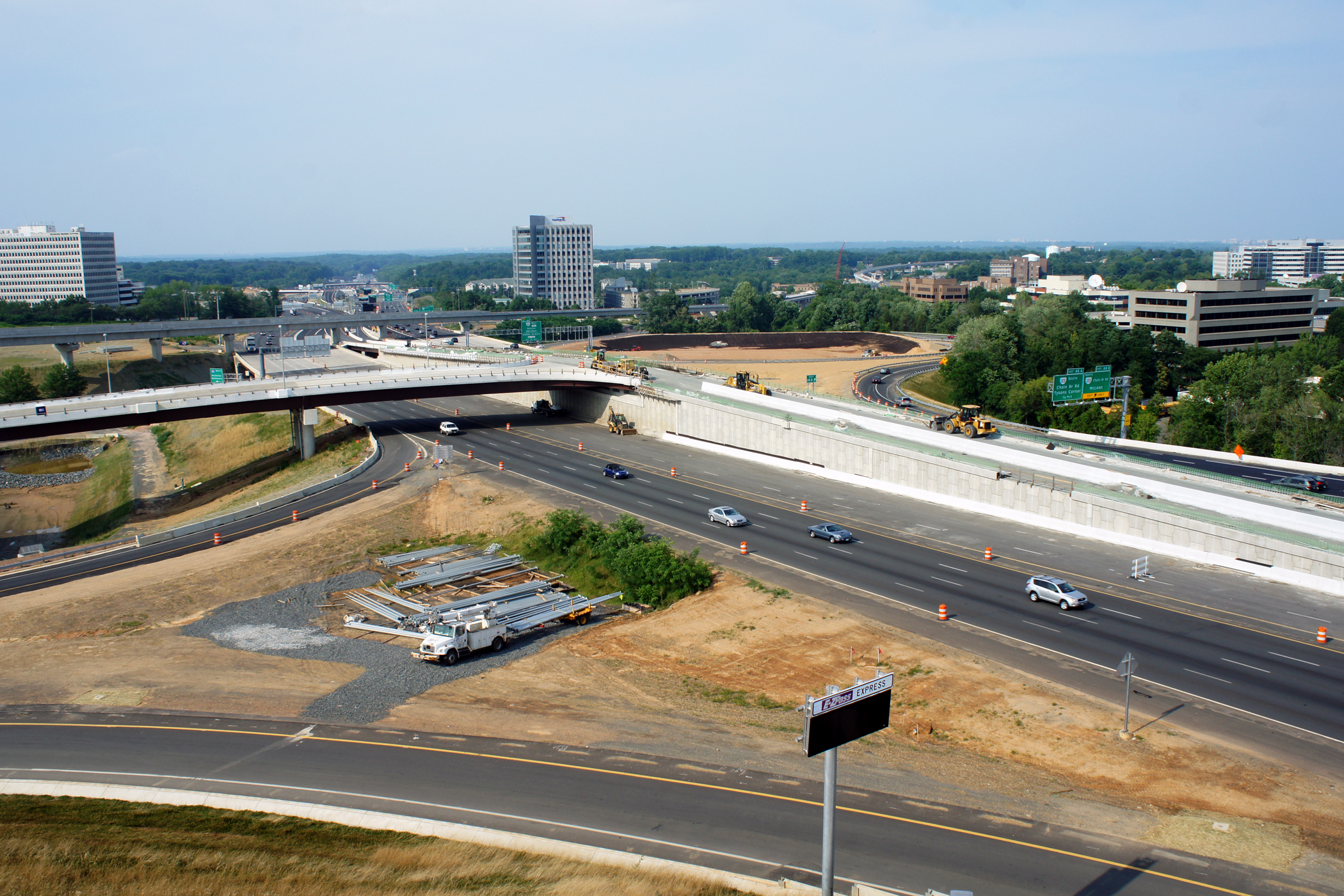 Capital Beltway (I-495) HOT lanes (495 Express Lanes) under construction. Picture shows I-495 interchange and elevated ramp access from Route 123 (Tysons Corner), in Fairfax County, Virginia.